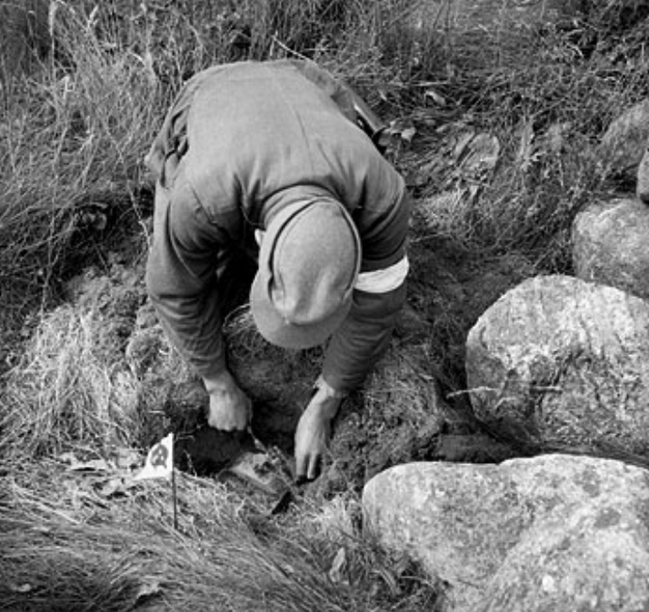 A German prisoner engaged in mine clearance duties near Stavanger unearths an anti-personnel mine.